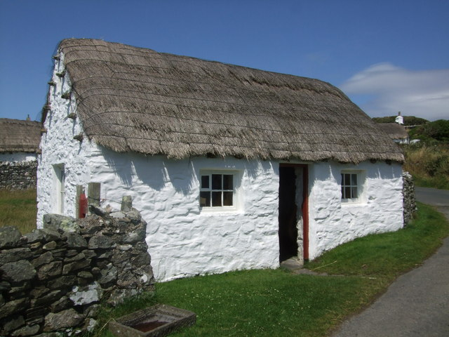 The Joiners Workshop at Cregneash Adjacent to Harry Kelly's cottage.